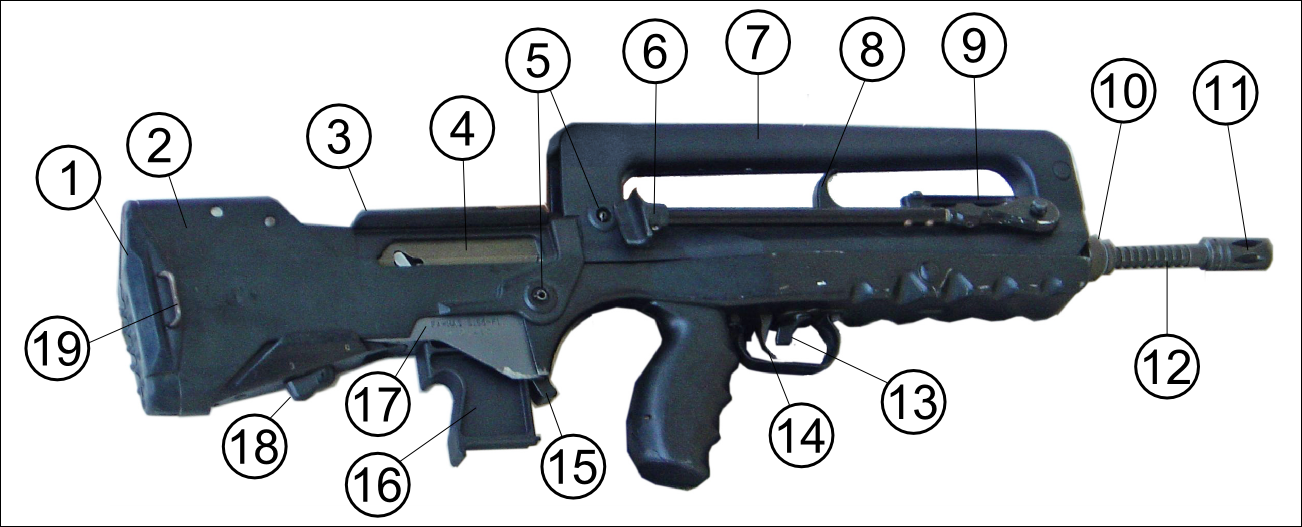 FAMAS Rubber buttstock Removable stock Cheek rest. Can be fitted for right or left-handed firers. Mobile assembly and spent case ejecting trap Pins Bipod Handguard Cocking lever Grenade launch sight Grenade support Flash Suppressor Barrel Firing selector: Safety, single shot, automatic Trigger Magazine release "PCL" rifle-grenade firing magazine (PCL = "pour cartouche de lancement" = "for launching catridge") Serial number 3-round burst or full automatic selector Sling ring